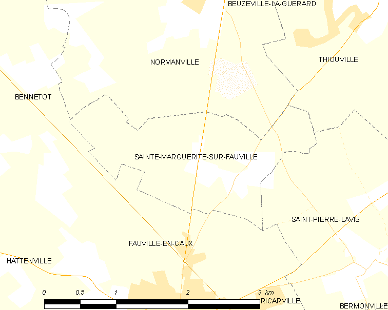 Map of French municipality Sainte-Marguerite-sur-Fauville